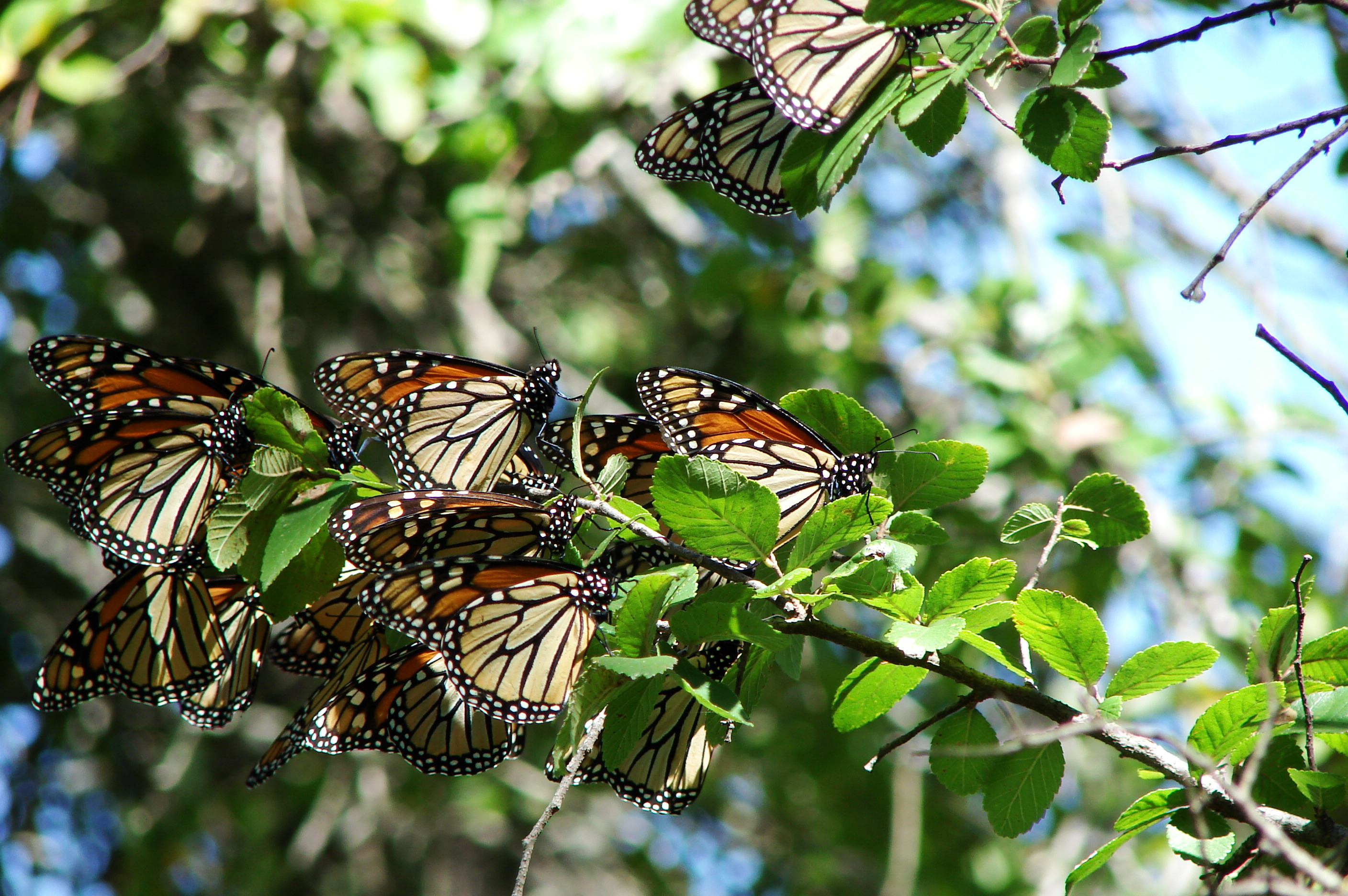 Migrating Monarch butterflies (Danaus plexippus plexippus) on a cedar elm tree in central Texas.